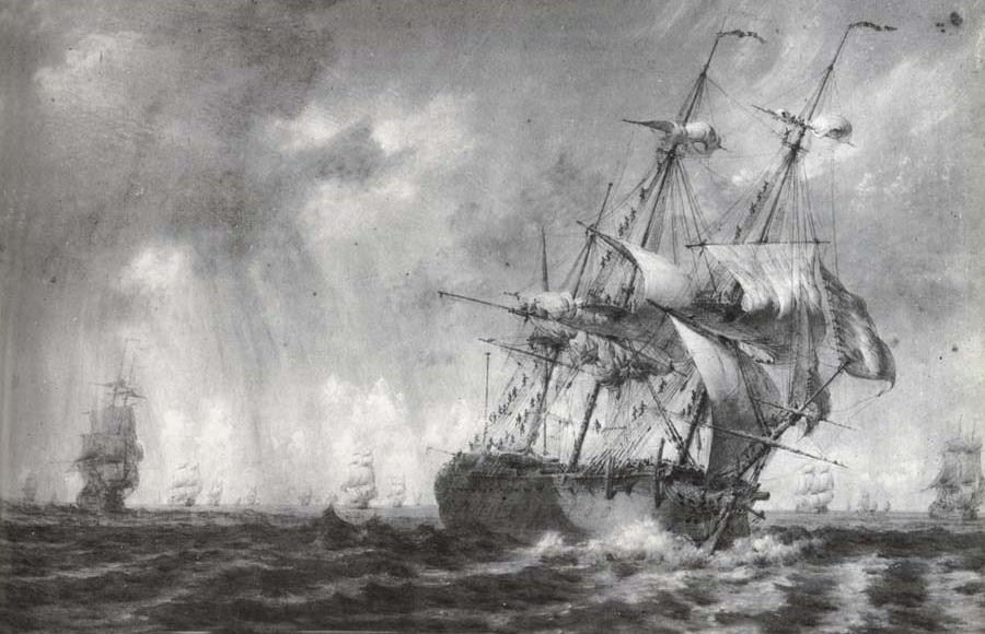 Vessels in rough seas, under a stormy sky with the topmen to maneuver in the masts.